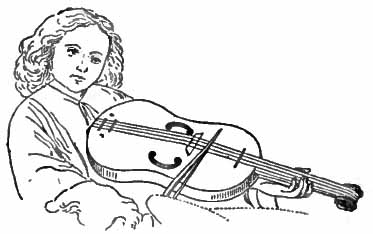 Line drawing of someone playing a guitar fiddle (violin precursor).